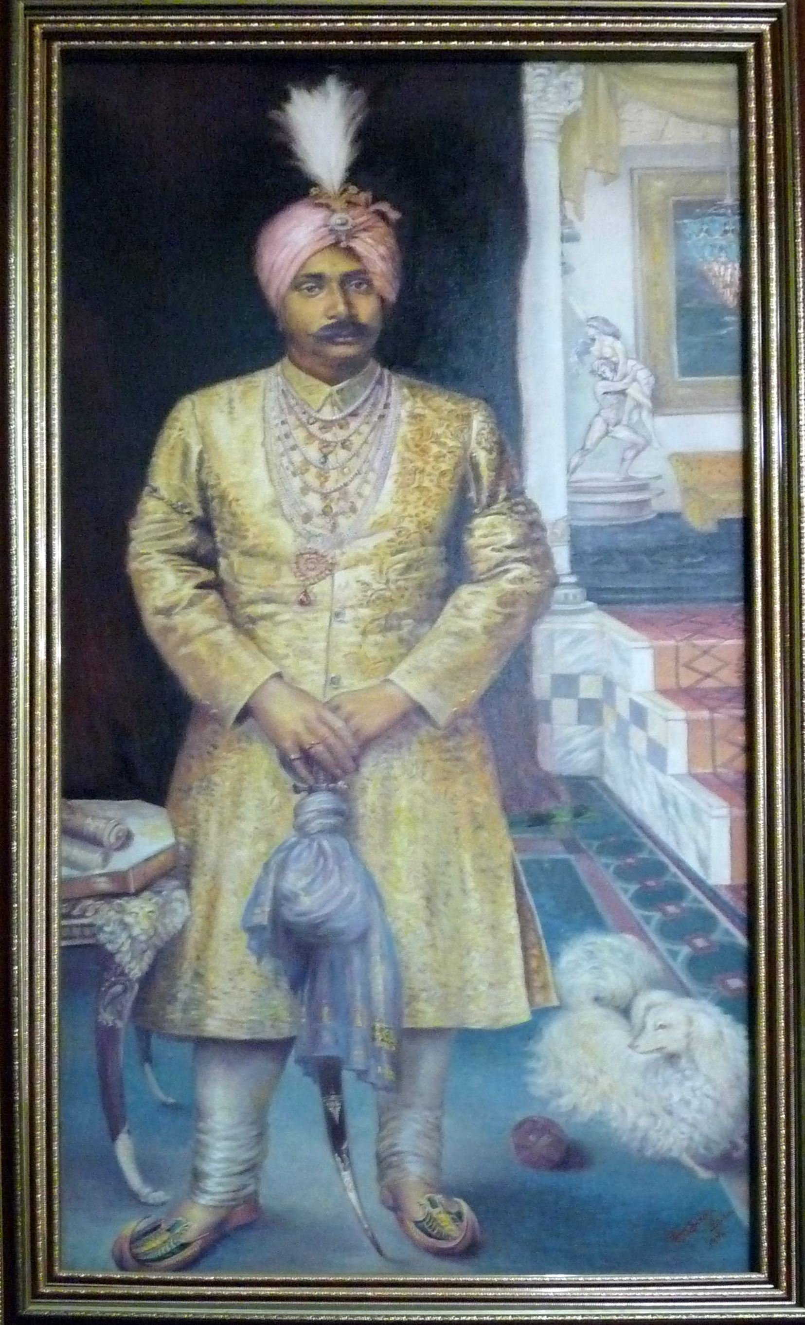 Painting of Gajapati Maharaja Krushna Chandra Dev, Bhubaneswar Gajapati Maharaja Krushna Chandra Dev was a reformer and fond of white fluffy doggies.